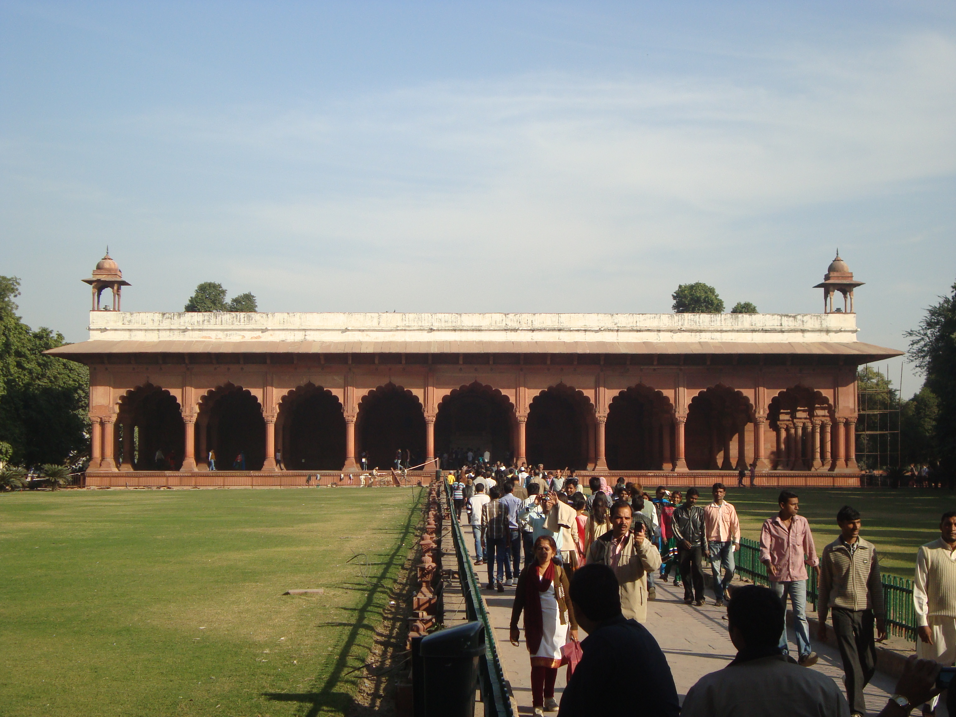 Diwan-i-Aam, Red Fort, Delhi